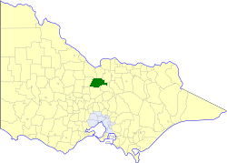 Location of the Shire of Waranga within Victoria.